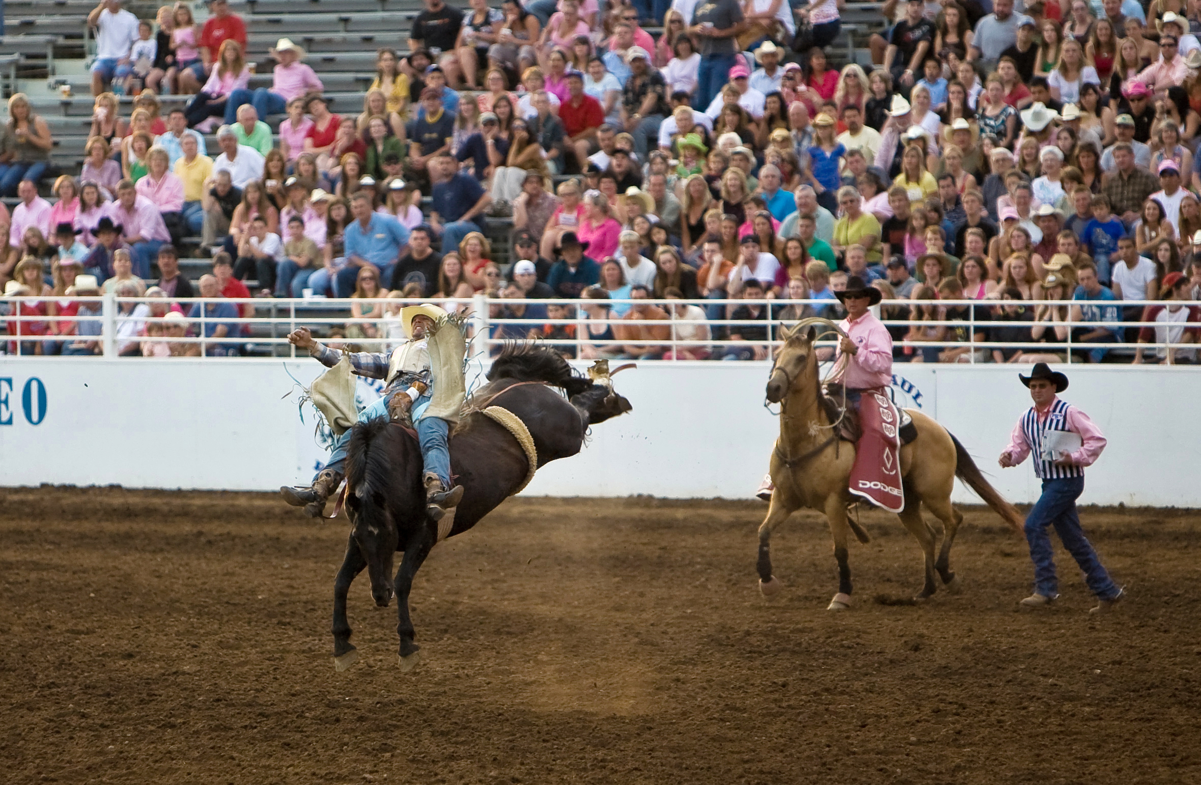 A Bareback bronco rider at the St. Paul Rodeo in St. Paul, Oregon.